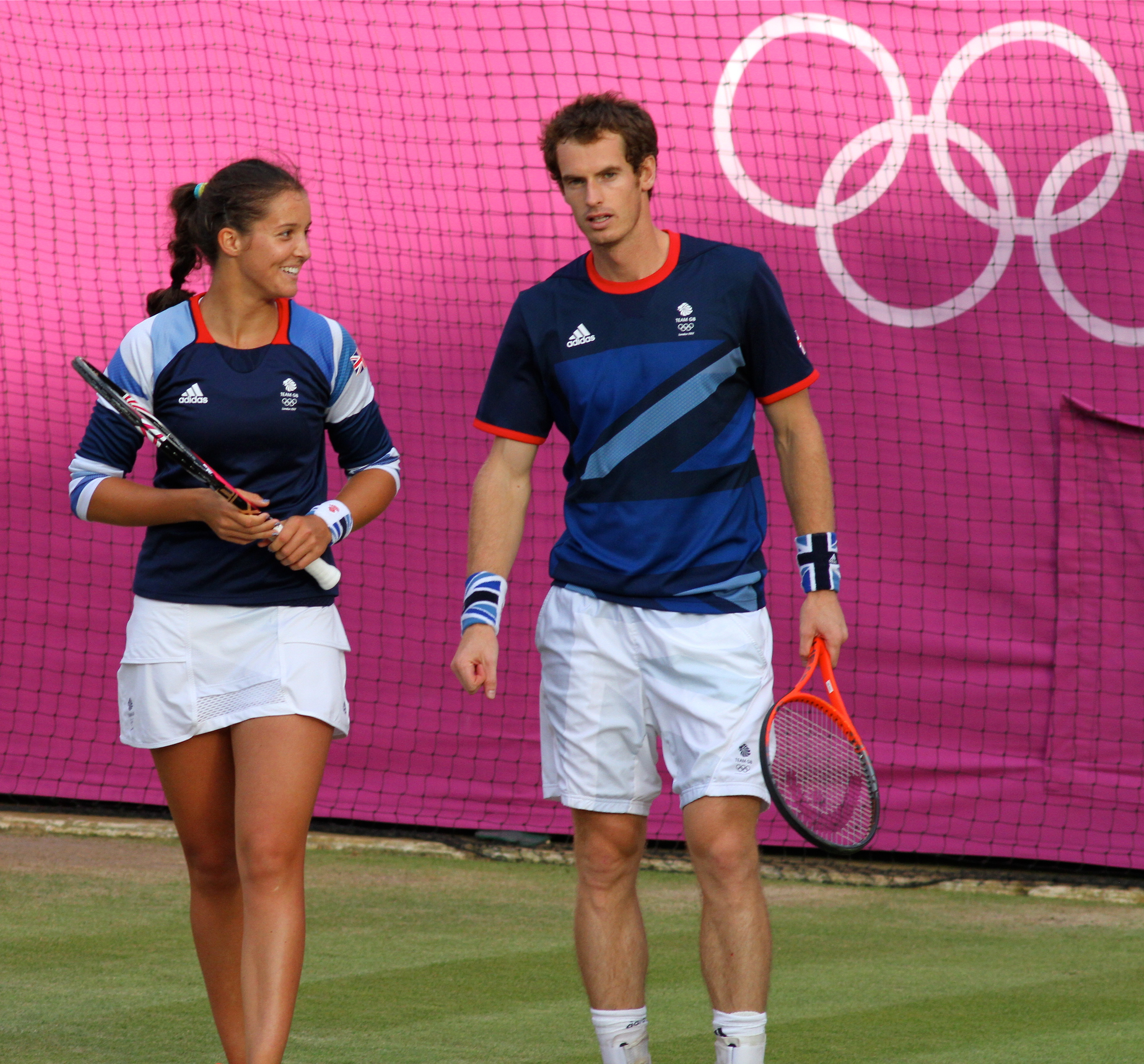 Andy Murray and Laura Robson in the mixed doubles at Wimbledon, London 2012 Olympics on 3 August 2012.